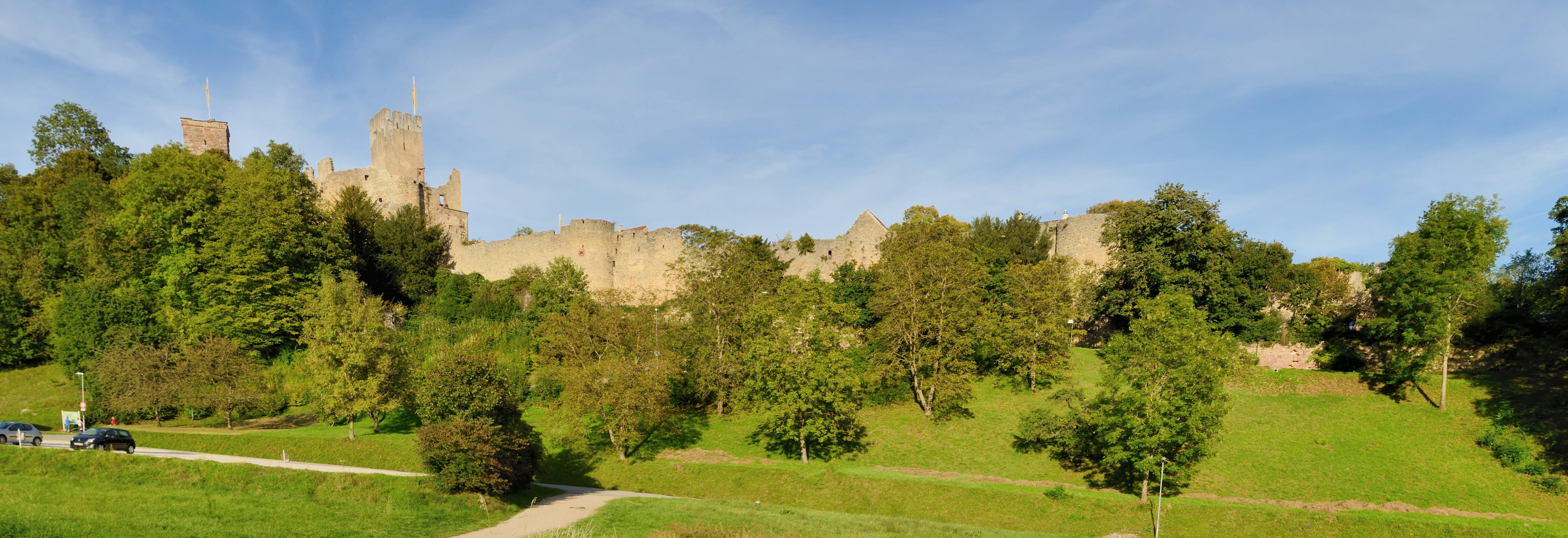 Rötteln Castle from west